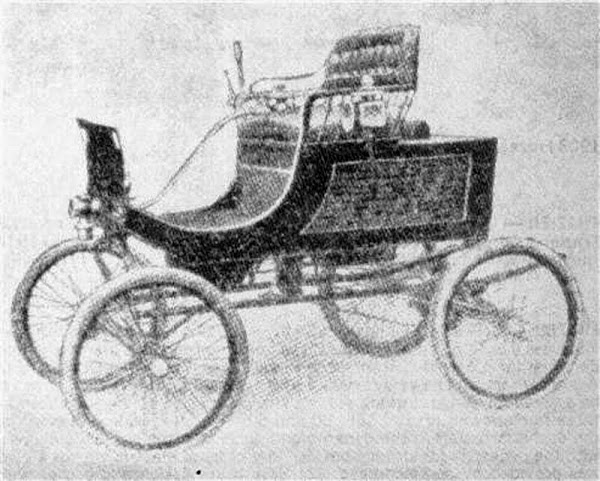 A Frantz steam powered automobile